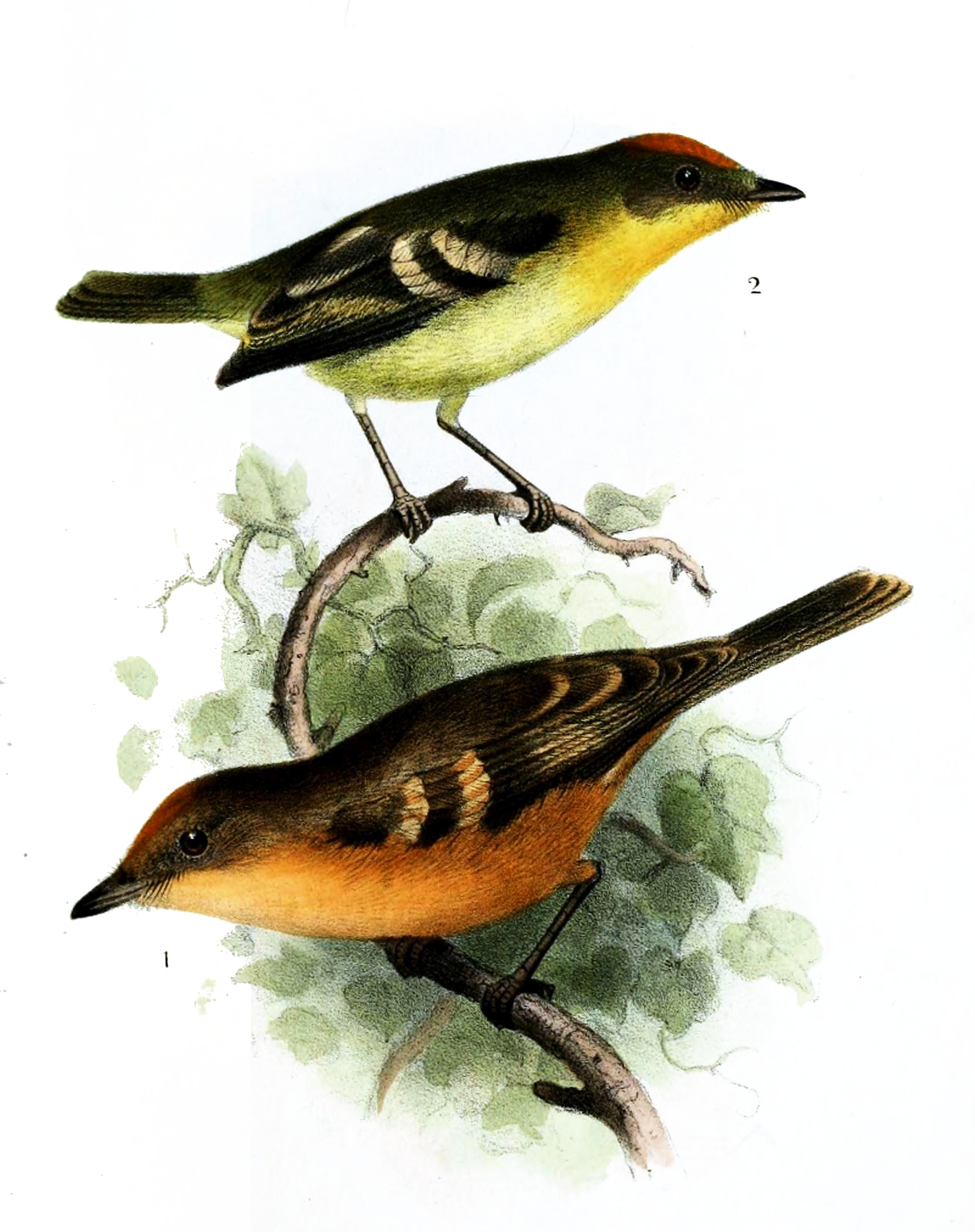 Adults of Handsome Flycatcher (above) and Rufescent Flycatcher (below)